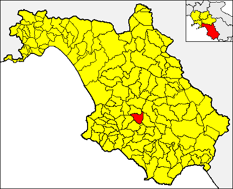 Locator map of the municipality of Stio (red) within the Province of Salerno